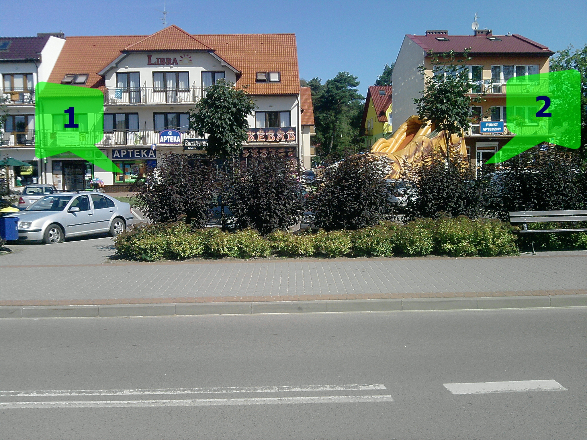 Two pharmacies on the main street in Mrzeżyno (Poland) seaside resort. (Possible illustration of the economic phenomenon called Hotelling's location).